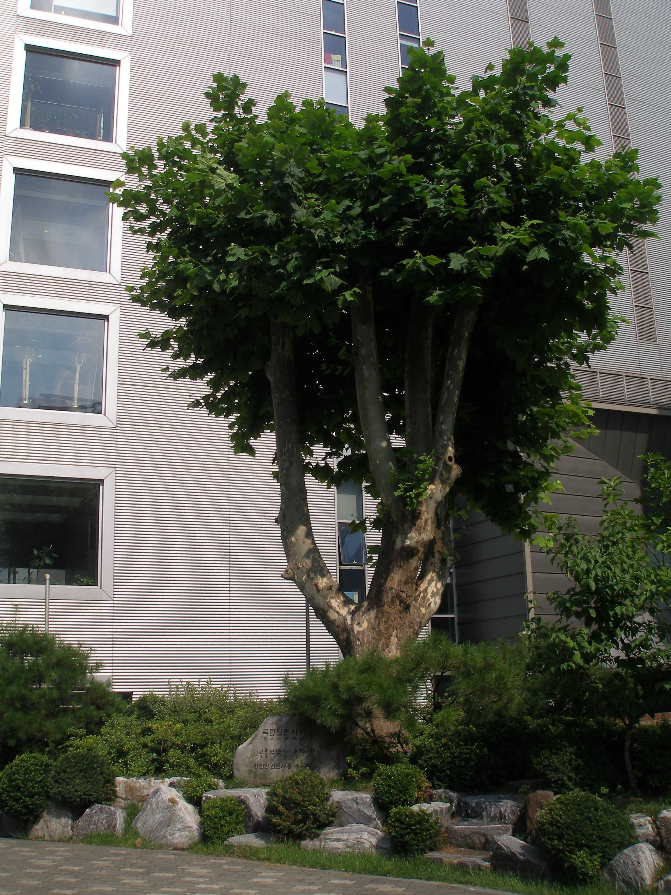 site of Independence Newspaper company of Korea